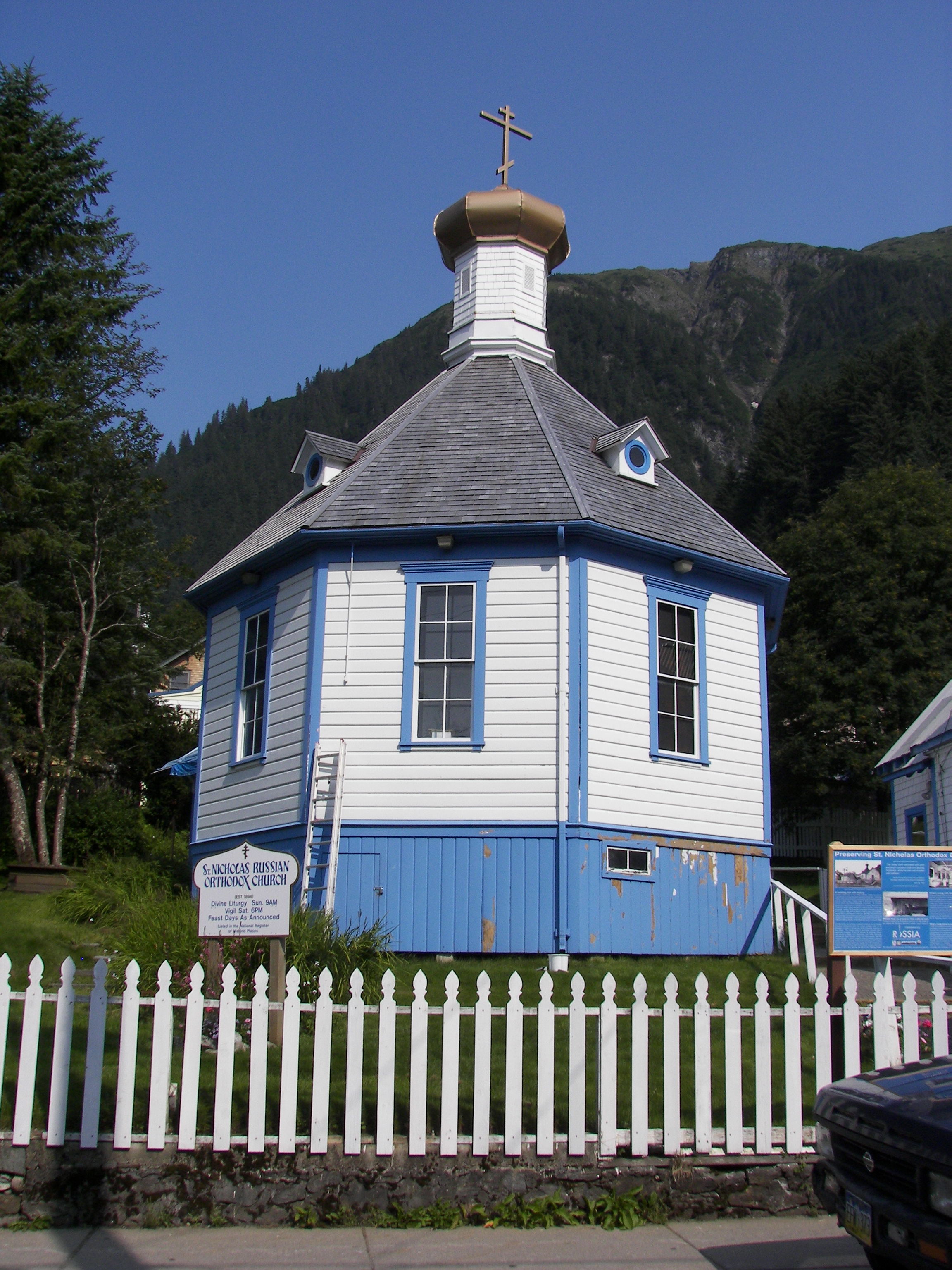 Saint Nicholas Russian Orthodox Church on Fifth Street in downtown Juneau, Alaska. The church is on the National Register of Historic Places in Alaska.